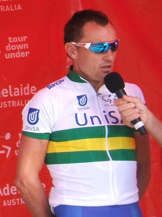 Named cyclist at the en:2009 Tour Down Under team presentation